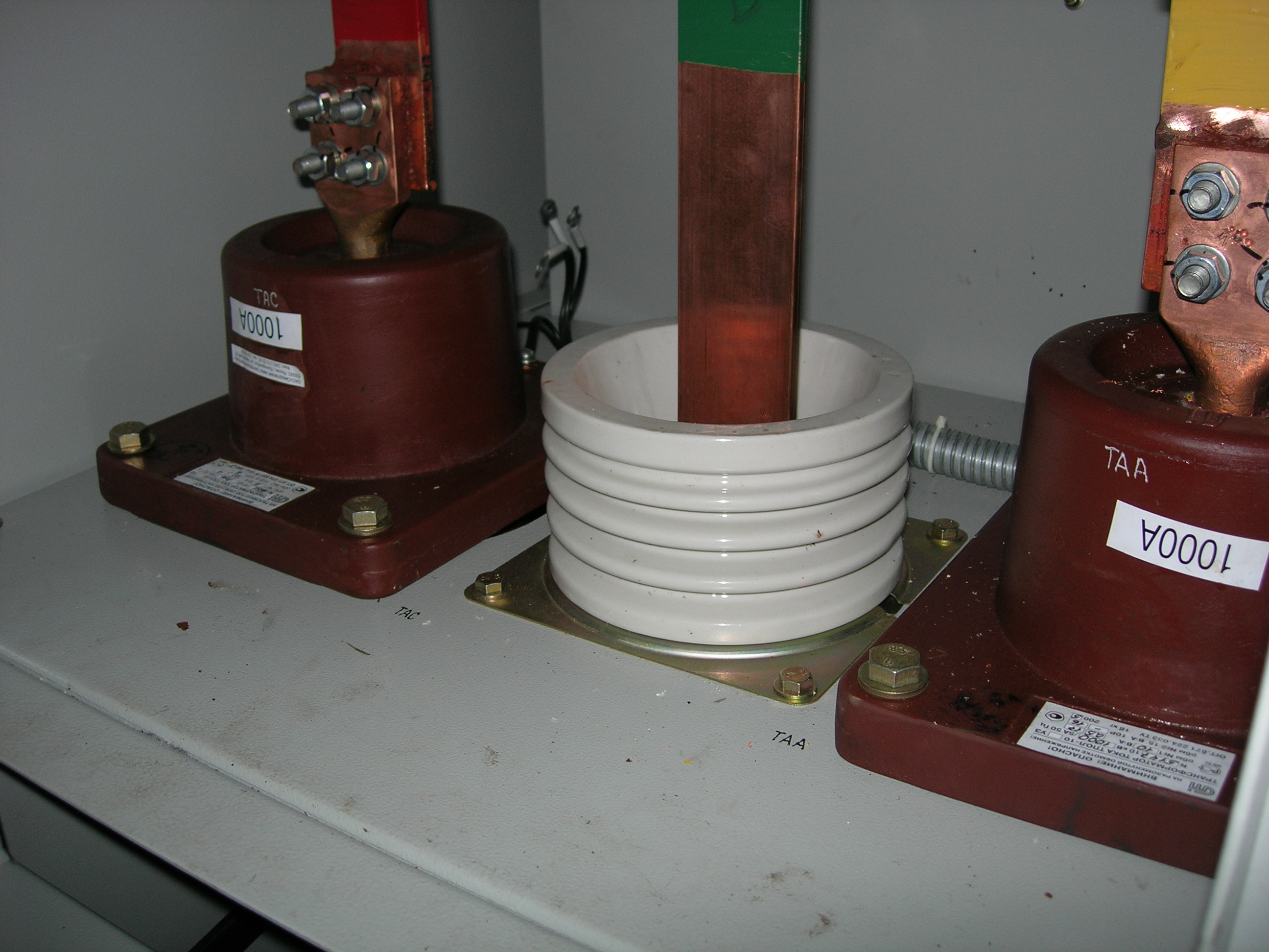 Back side of the automatics cabinet. Current transformers marked as TAA and TAC.